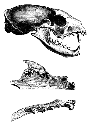 Ring-tailed mongoose skull and dentition